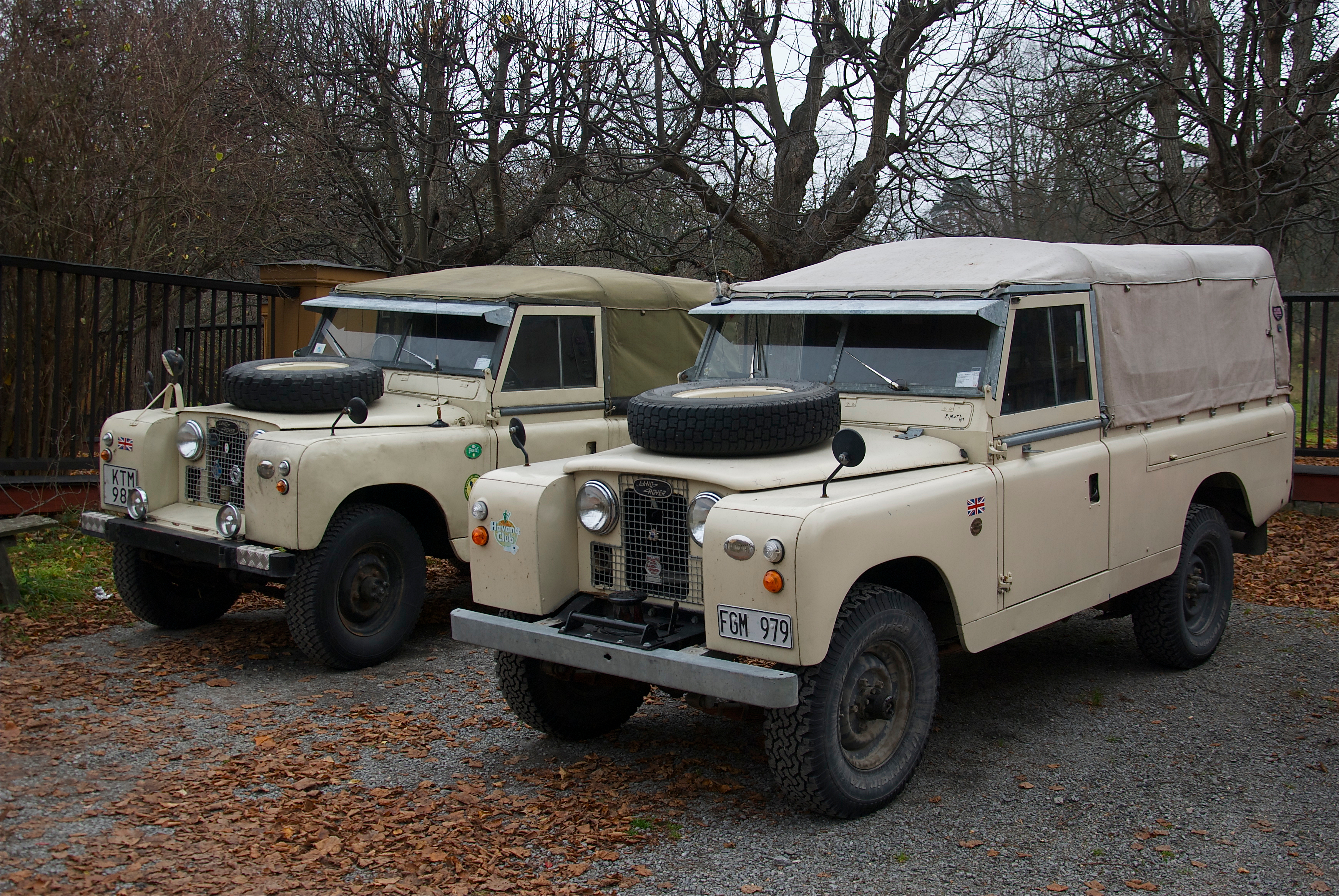 2 Land Rover Series II in Svindersvik, Nacka Municipality. Left 1959 Land Rover 88 D (2,200 mm wheelbase normally referred to as the 'SWB). Right 1959 Land Rover 109 (2,800 mm wheelbase normally referred to as the LWB). Source: Swedish Transport Administration (svenska transportverket)